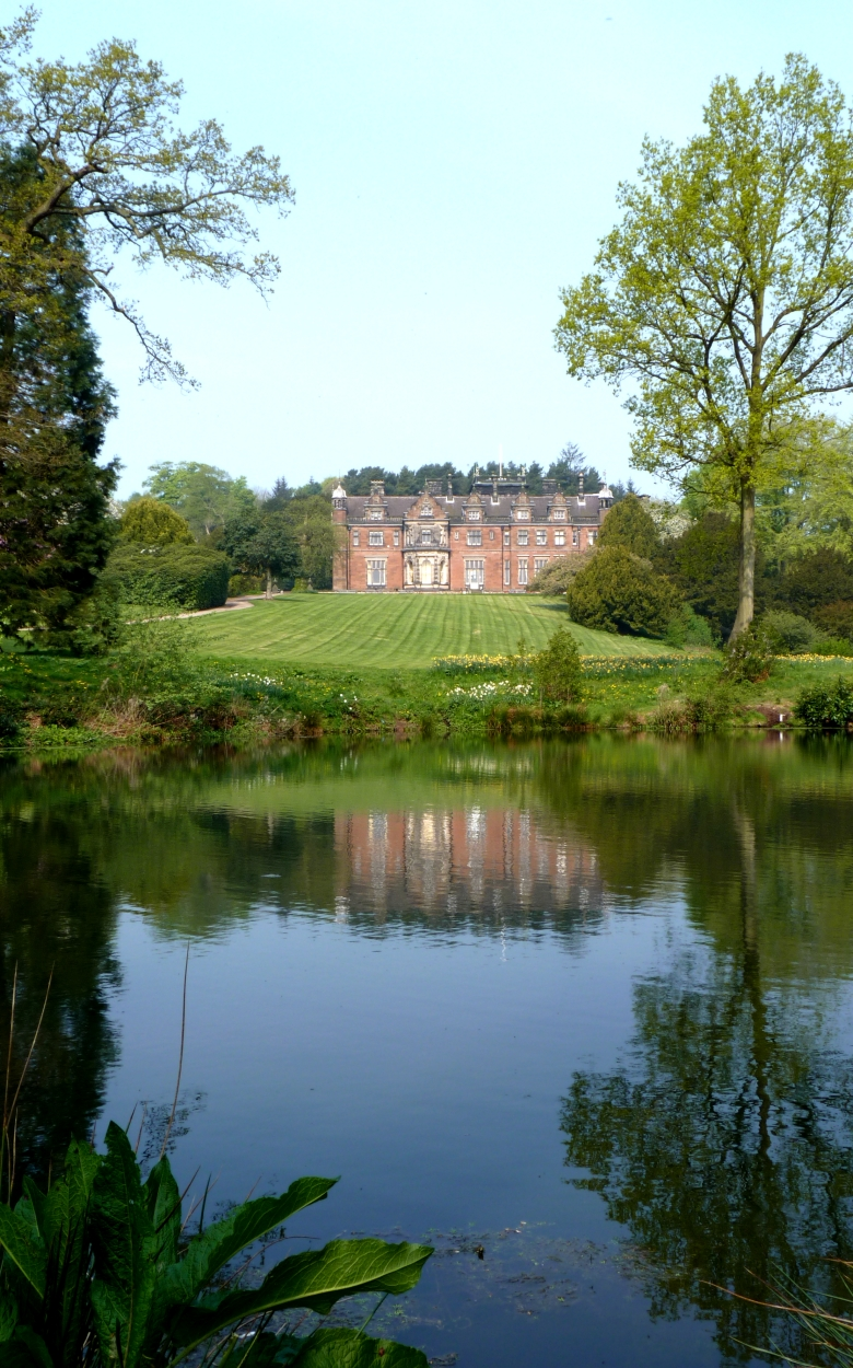 Keele Hall South View